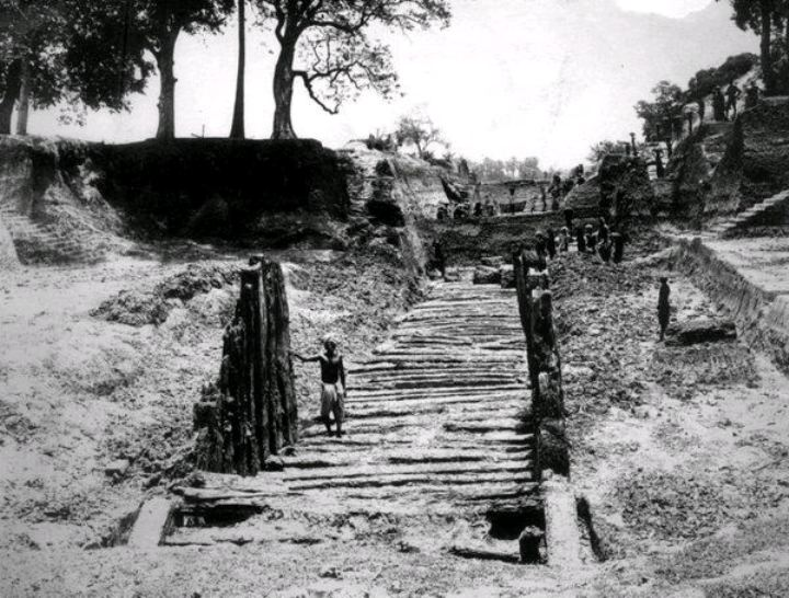 Mauryan remains of a wooden palissade at Bulandi Bagh site of Pataliputra Archaelogical Survey of India 1926-27